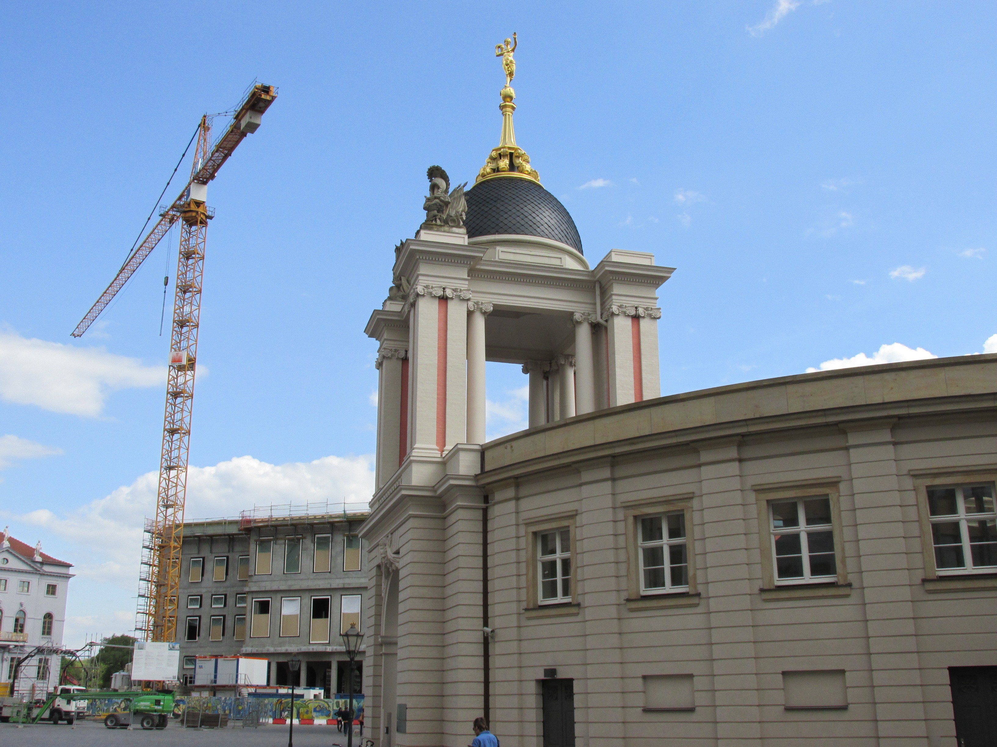 Fortunaportal, Potsdam, Germany - May 20115